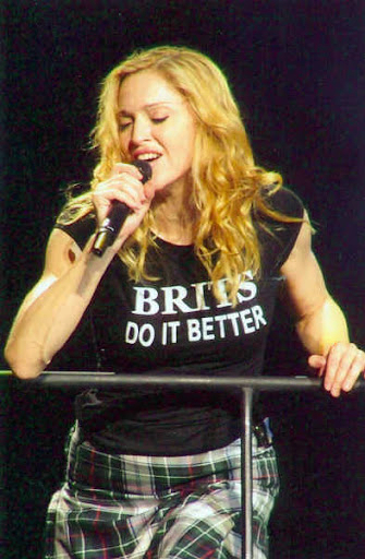 Photo taken at the concert